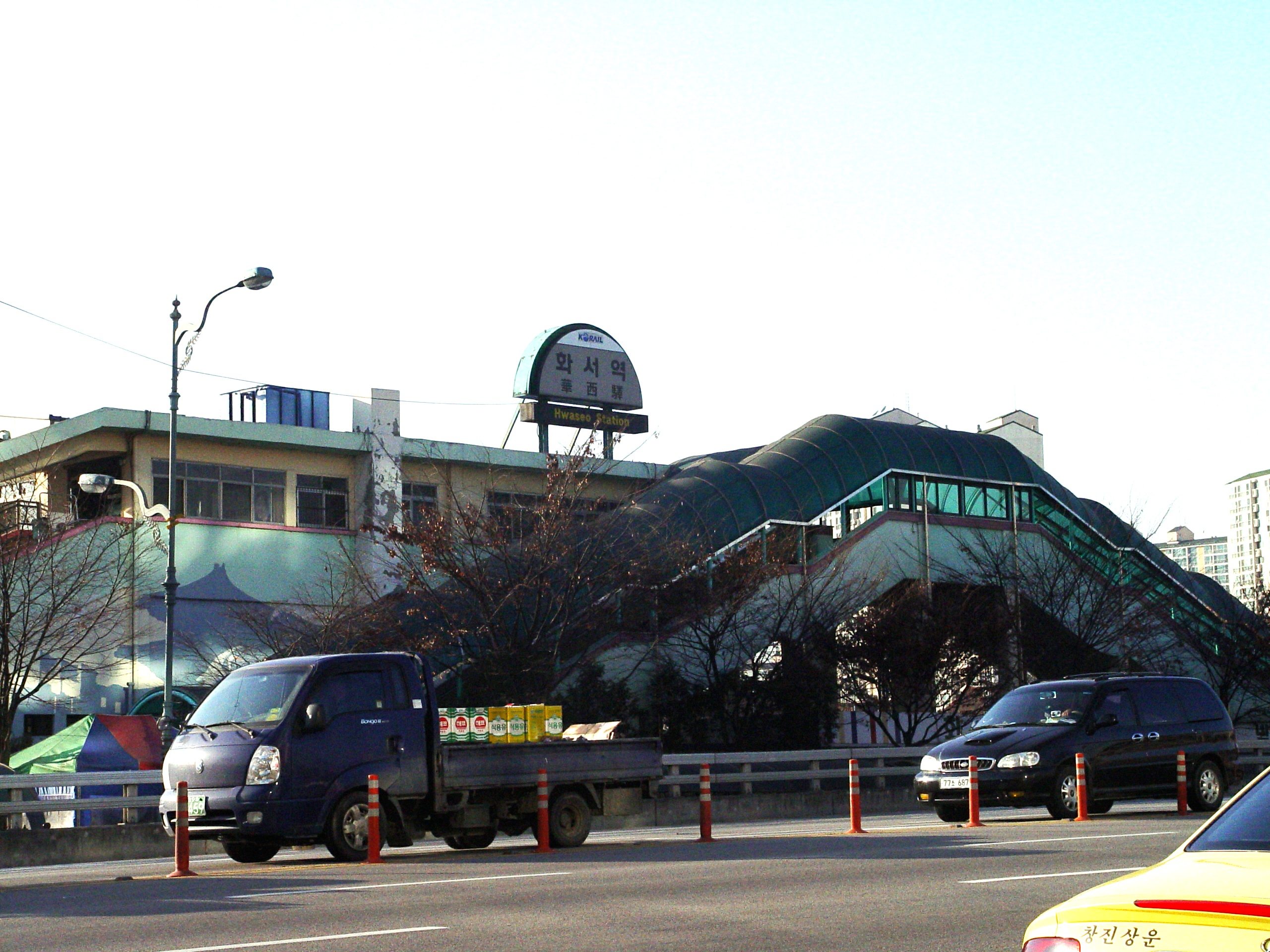 The front of Hwaseo Station